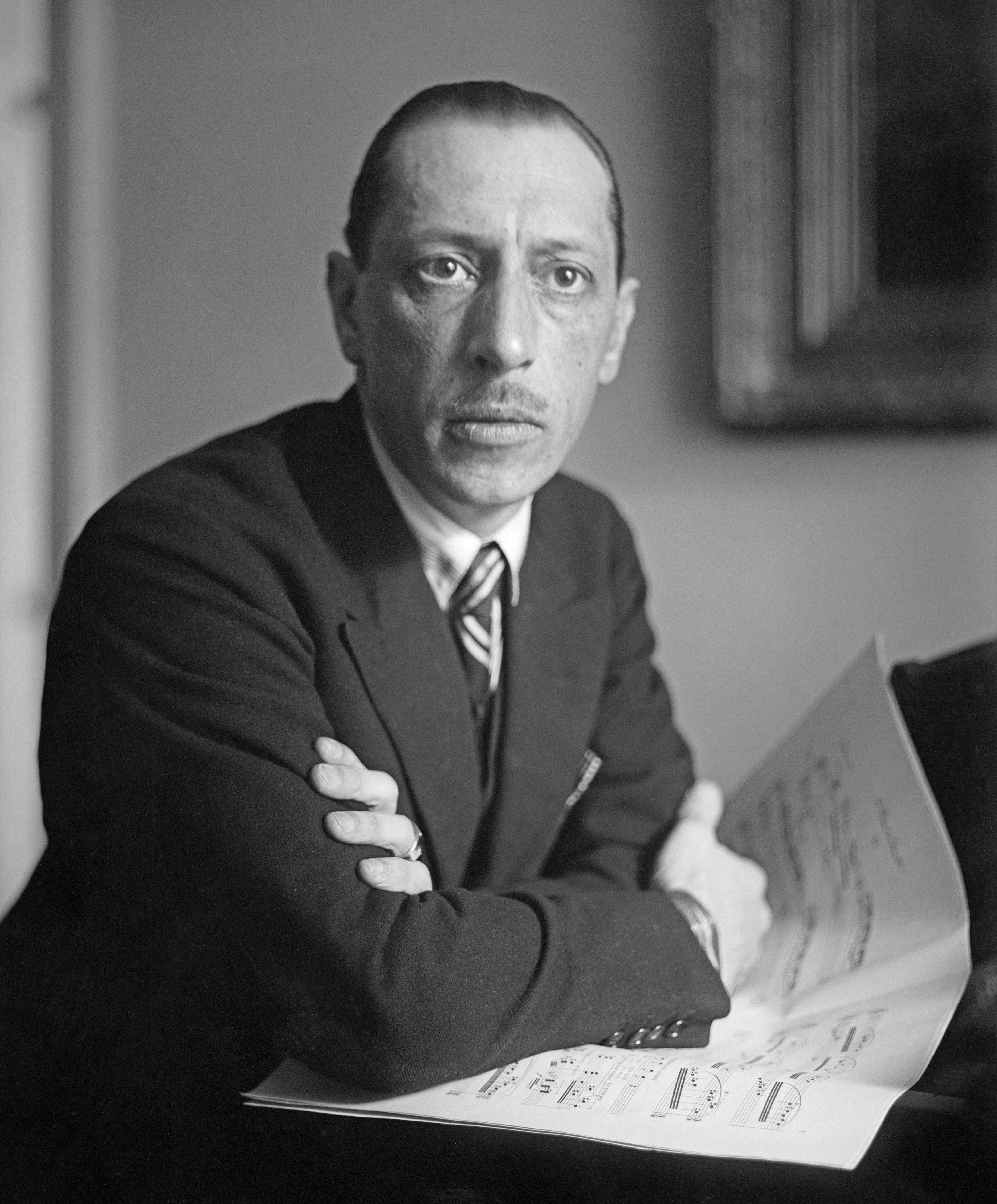 Photoportrait of Igor Stravinsky, Russian composer.